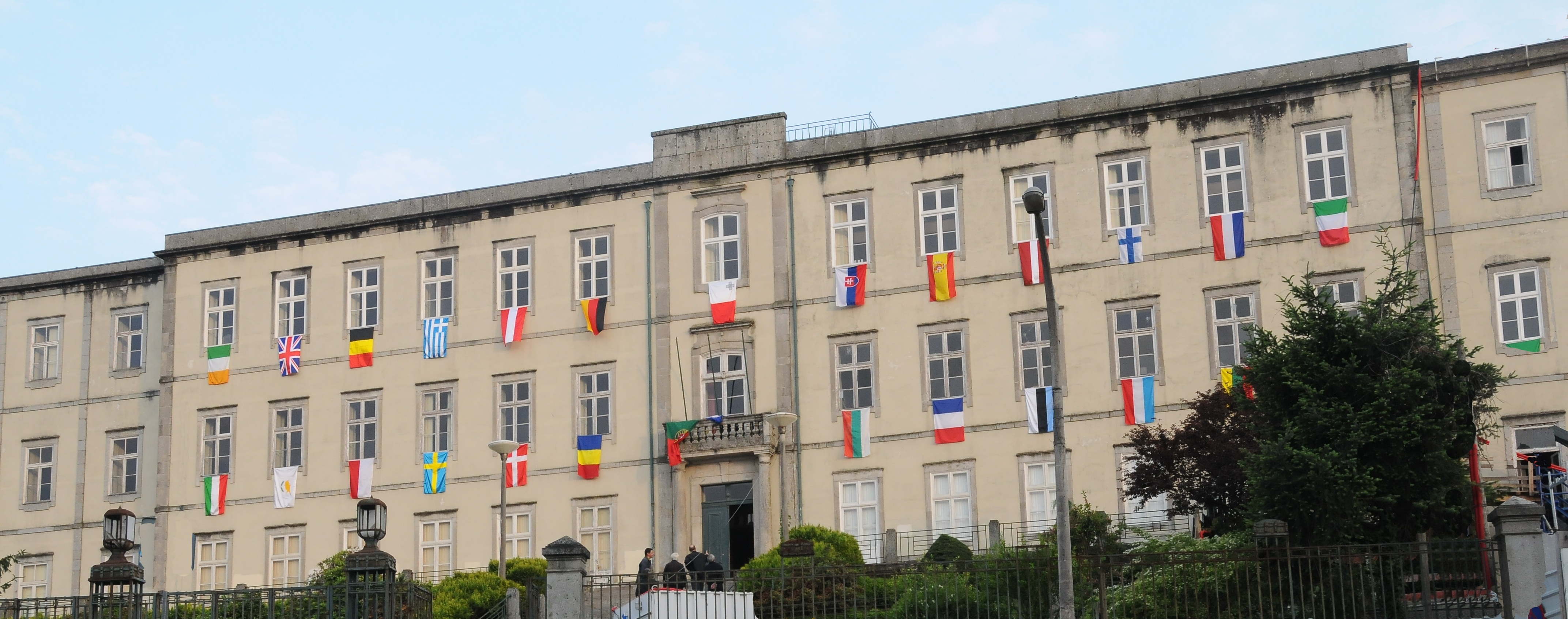 Sa de Miranda School in Braga, Portugal, decorated with flags for the Europe Day